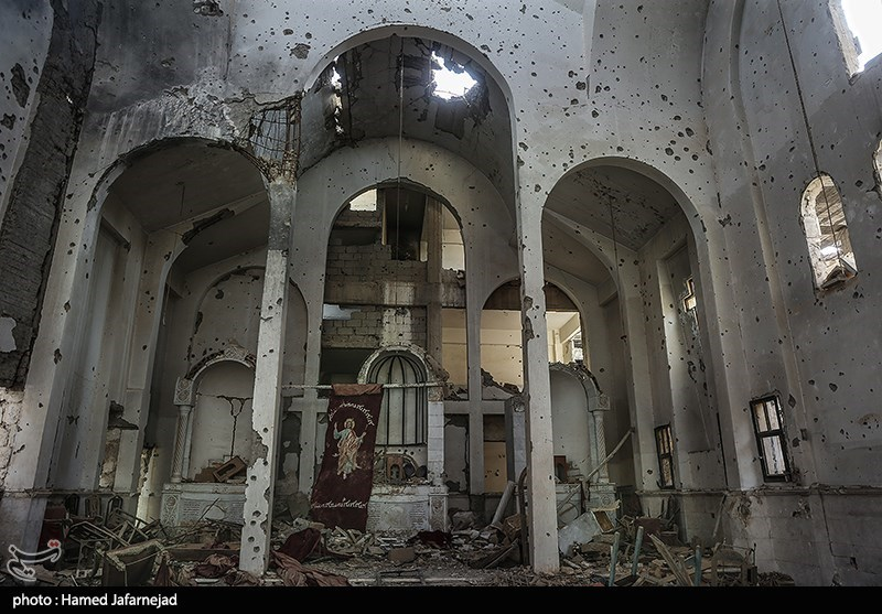 destruction by ISIS terrorists in an armenian church in the syrian city of Deir al-Zur.